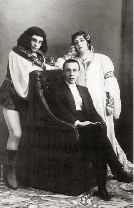 S.V. Rachmaninov (seated) with participants of the first production of the opera "Fransecsa da Ramini" G.A. Baklanov and N.V. Salina, 1906.